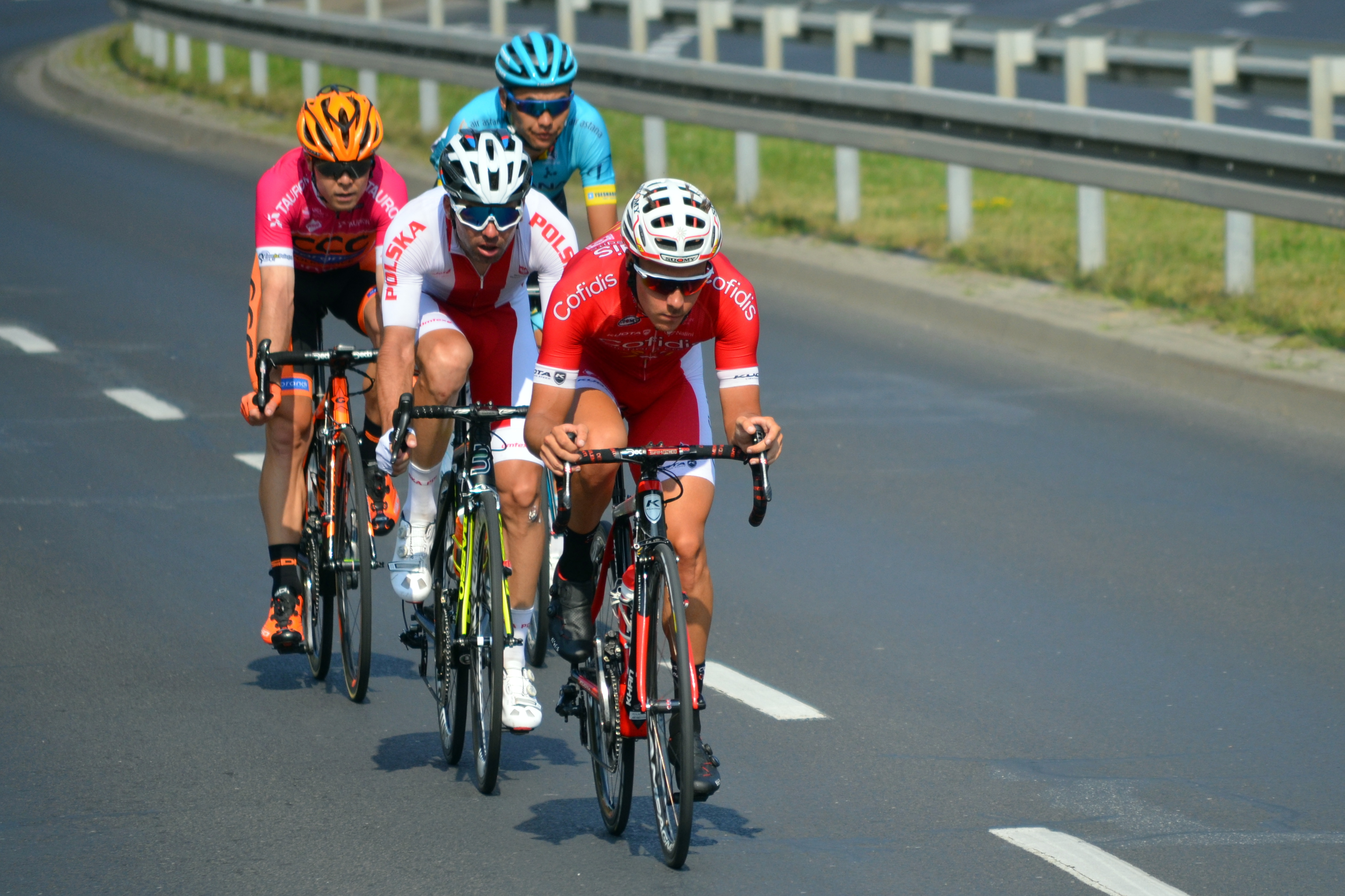 Tour de Pologne 2018